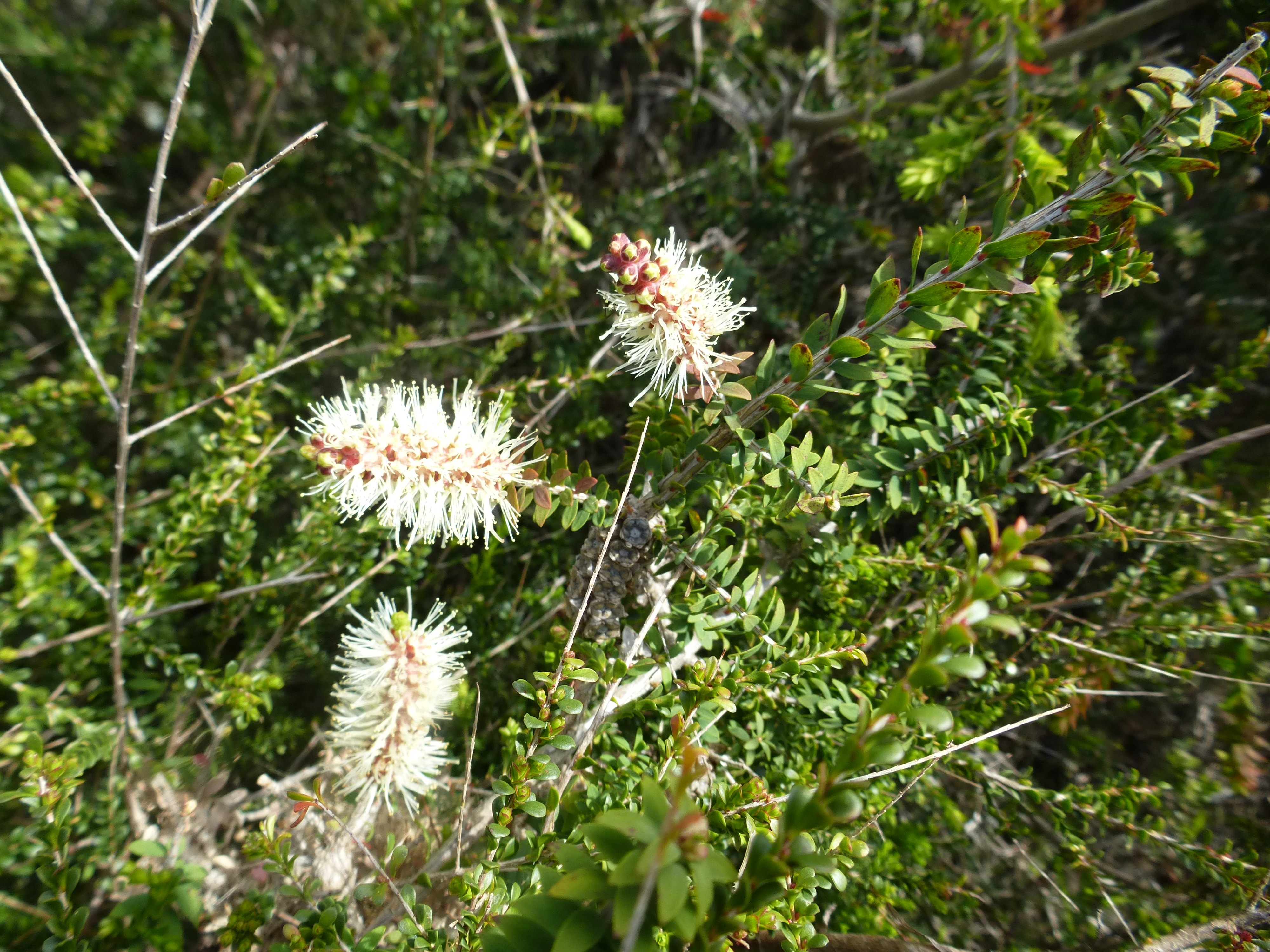 Melaleuca incana incana growing near Point d'Entrecasteaux